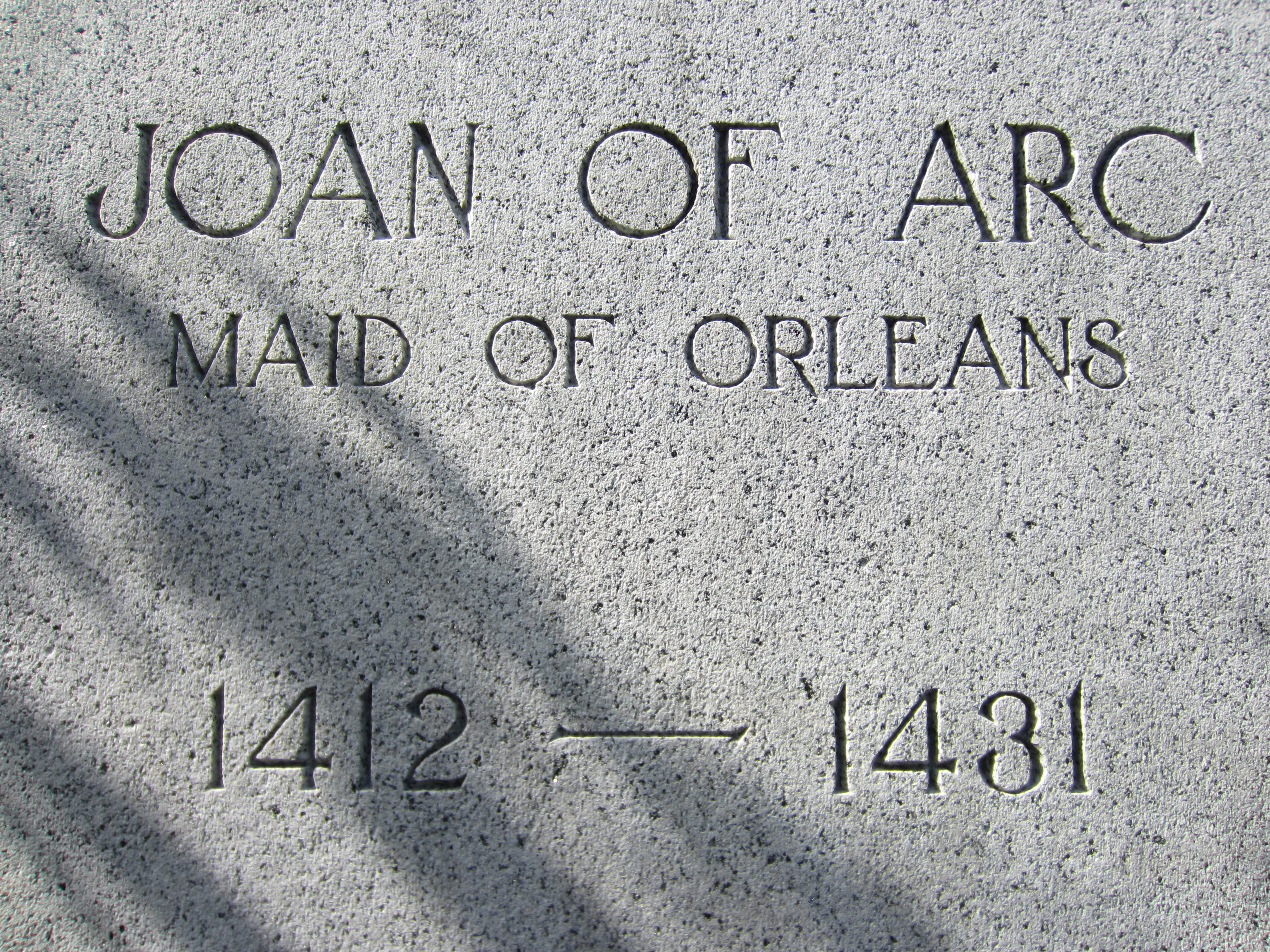 Engraving for Joan of Arc sculpture, Laurelhurst, Portland, Oregon